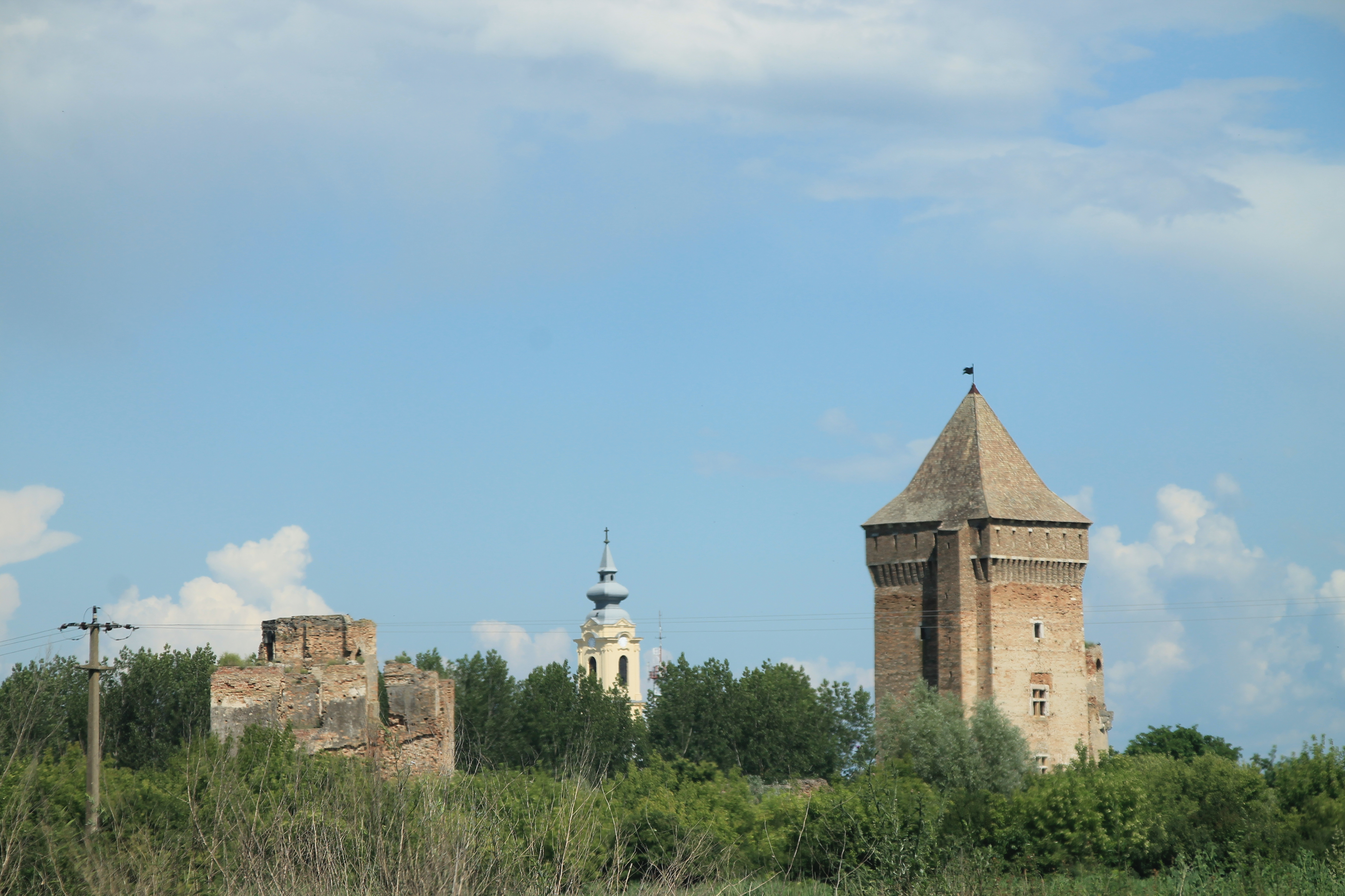 Bač Fortress